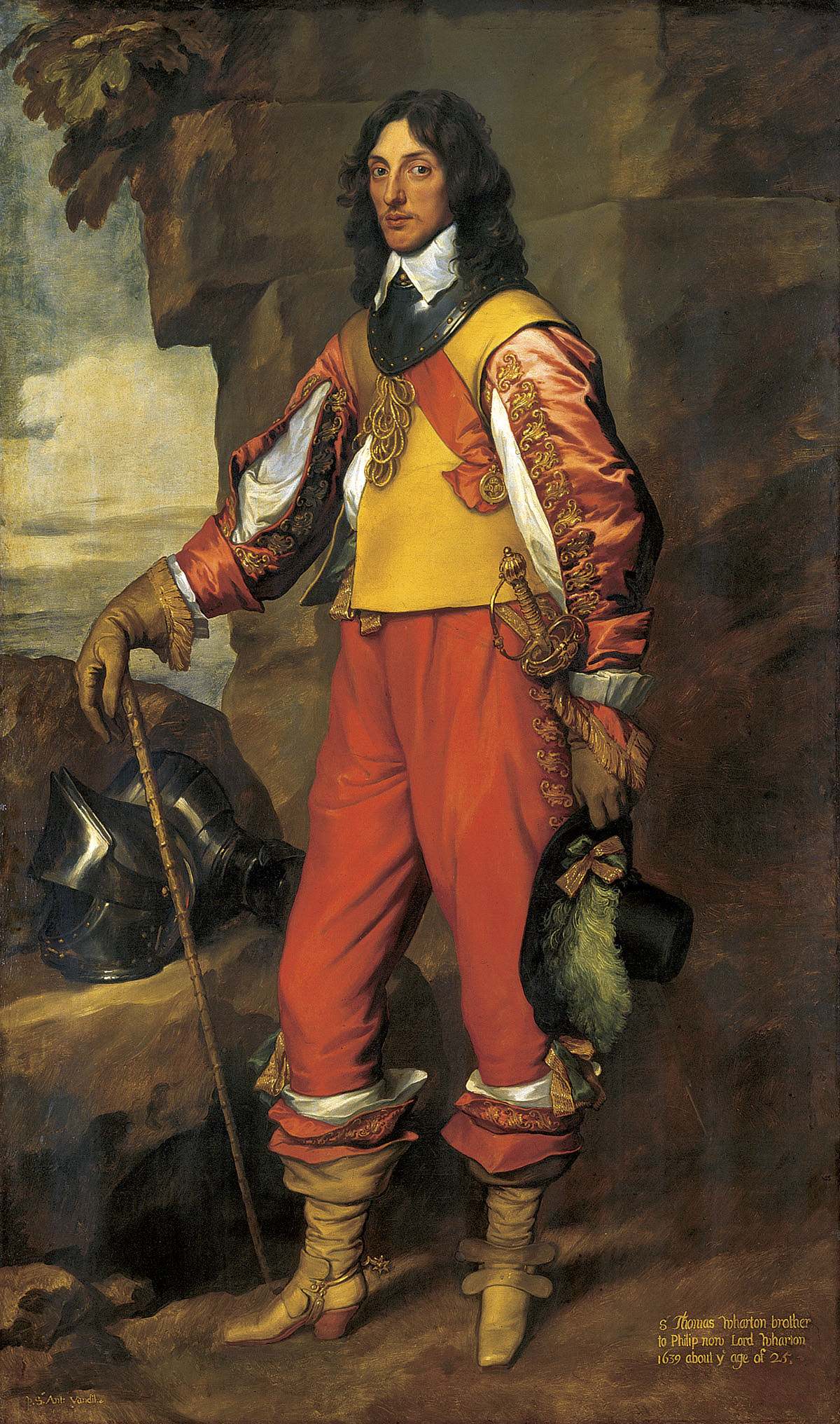 Sir Thomas Wharton (c. 1615 – 30 October 1684), English politician who sat in the House of Commons in 1659 and 1660, brother of Philip Wharton, 4th Baron Wharton (18 April 1613 – 4 February 1696)